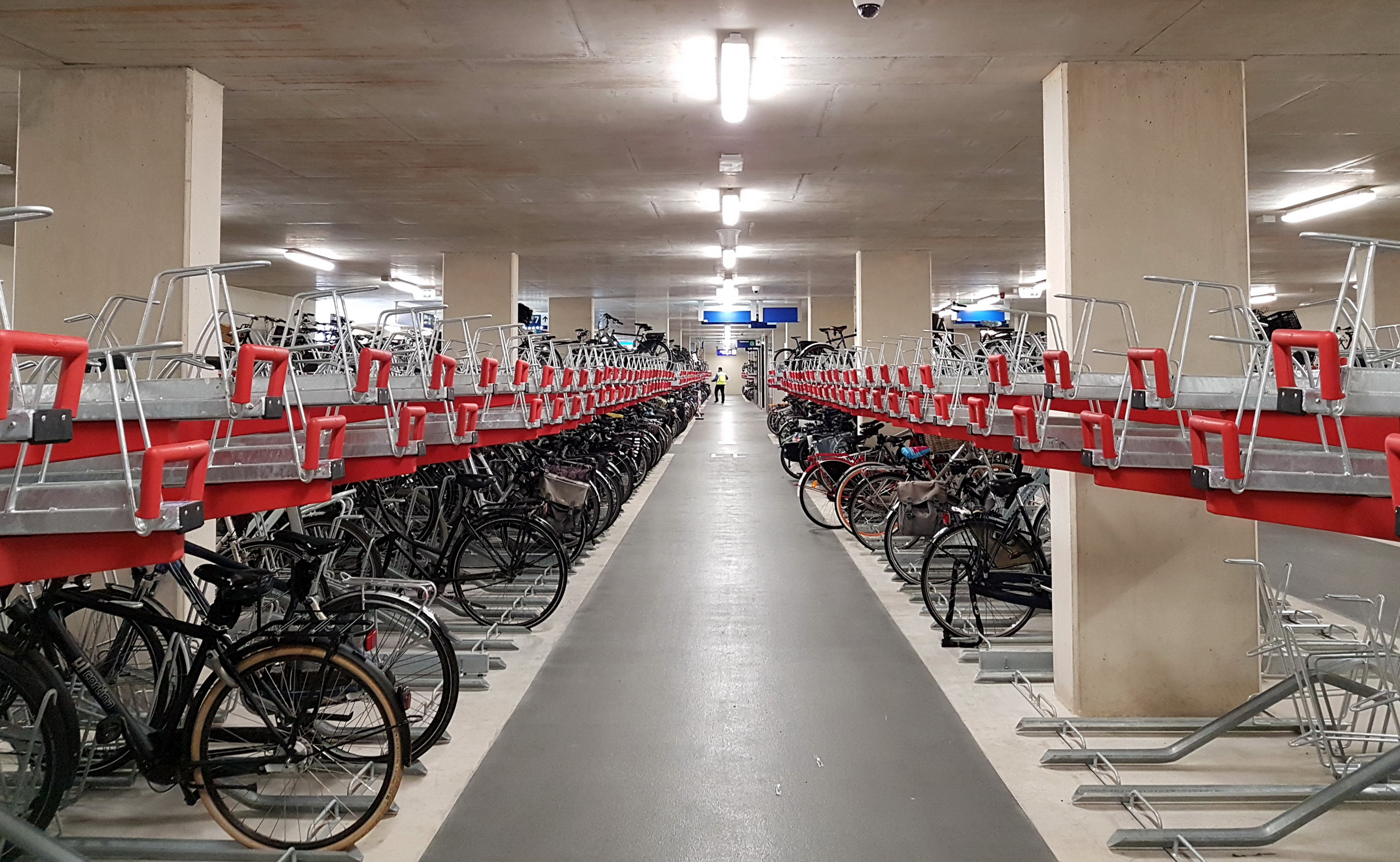 View of a bicycle parking garage near the main train station in Maastricht, Netherlands.